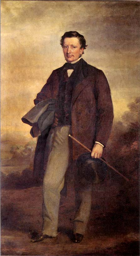 Samuel Morton Peto (1809-1889)